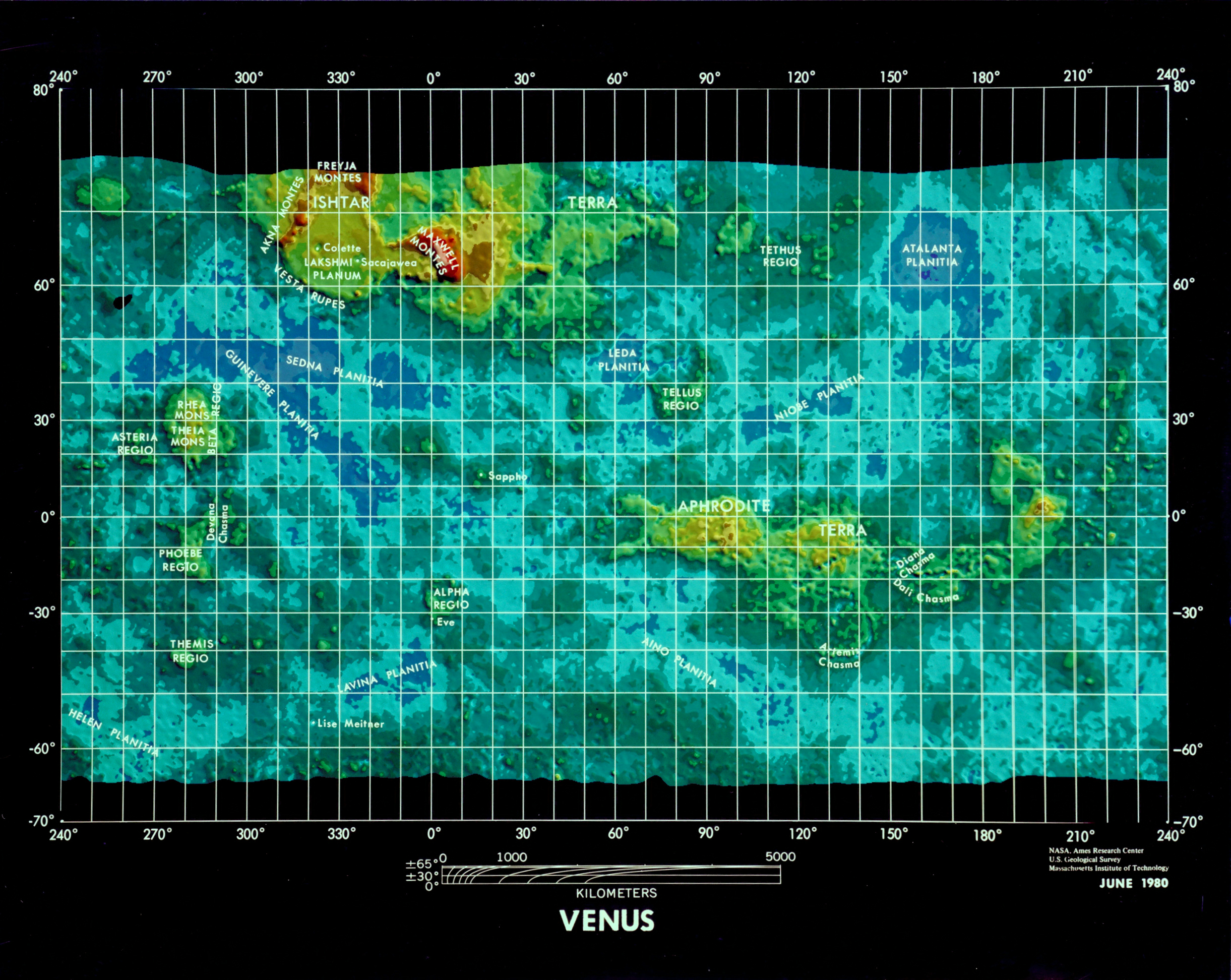 Photographer: Pioneer Complete Venus Map